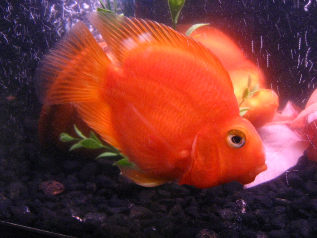 Red Parrot fish